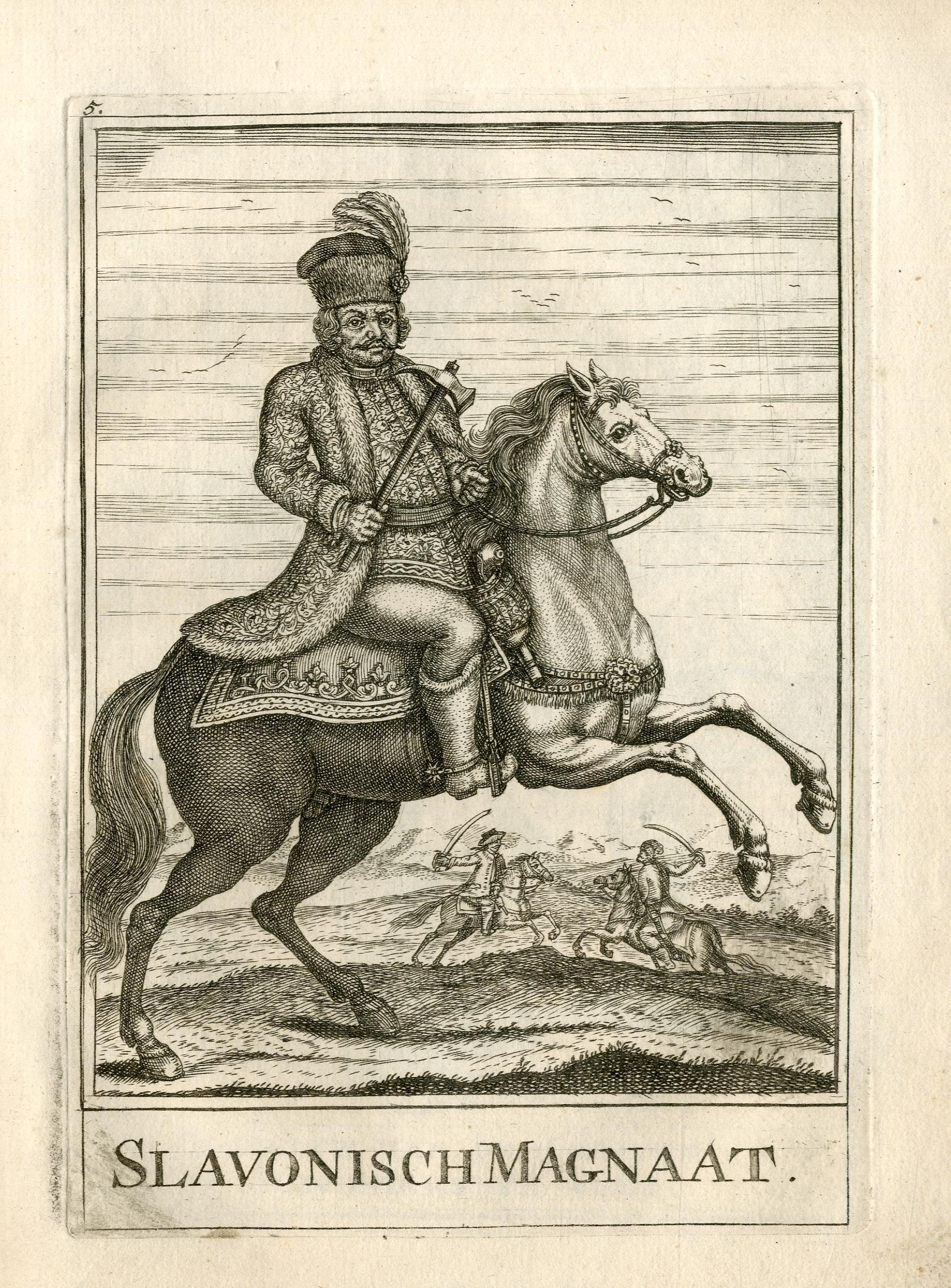 Illustration